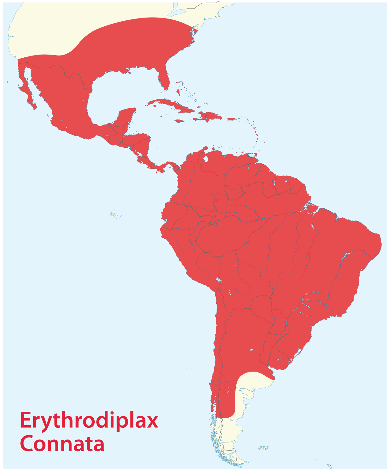 Distribution map of Erythrodiplax Connata